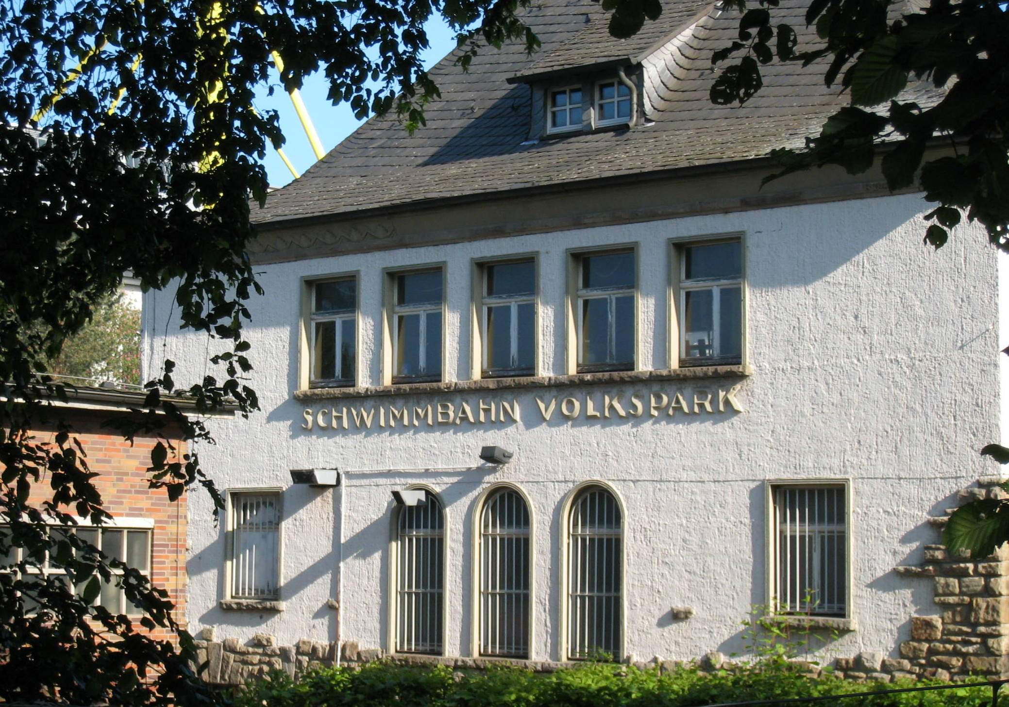 Swimstadium Volkspark Dortmund